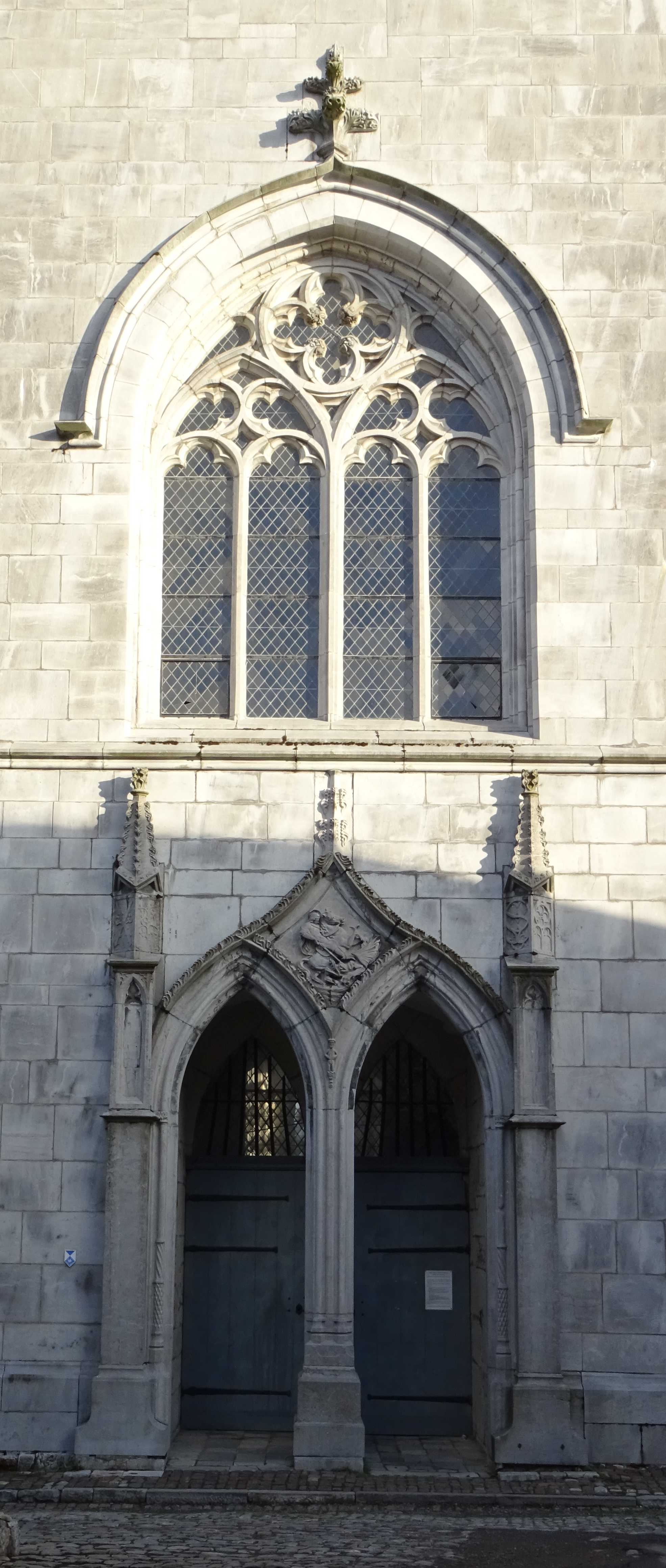 Eglise Saint-Georges de Limbourg: l'entrée coté ouest de la tour